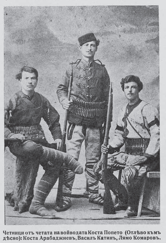 Portrait of cheta of Kosta Popeto